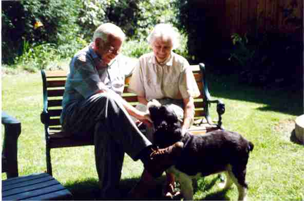 A low resolution image of Bob Homme and his wife during retirement.